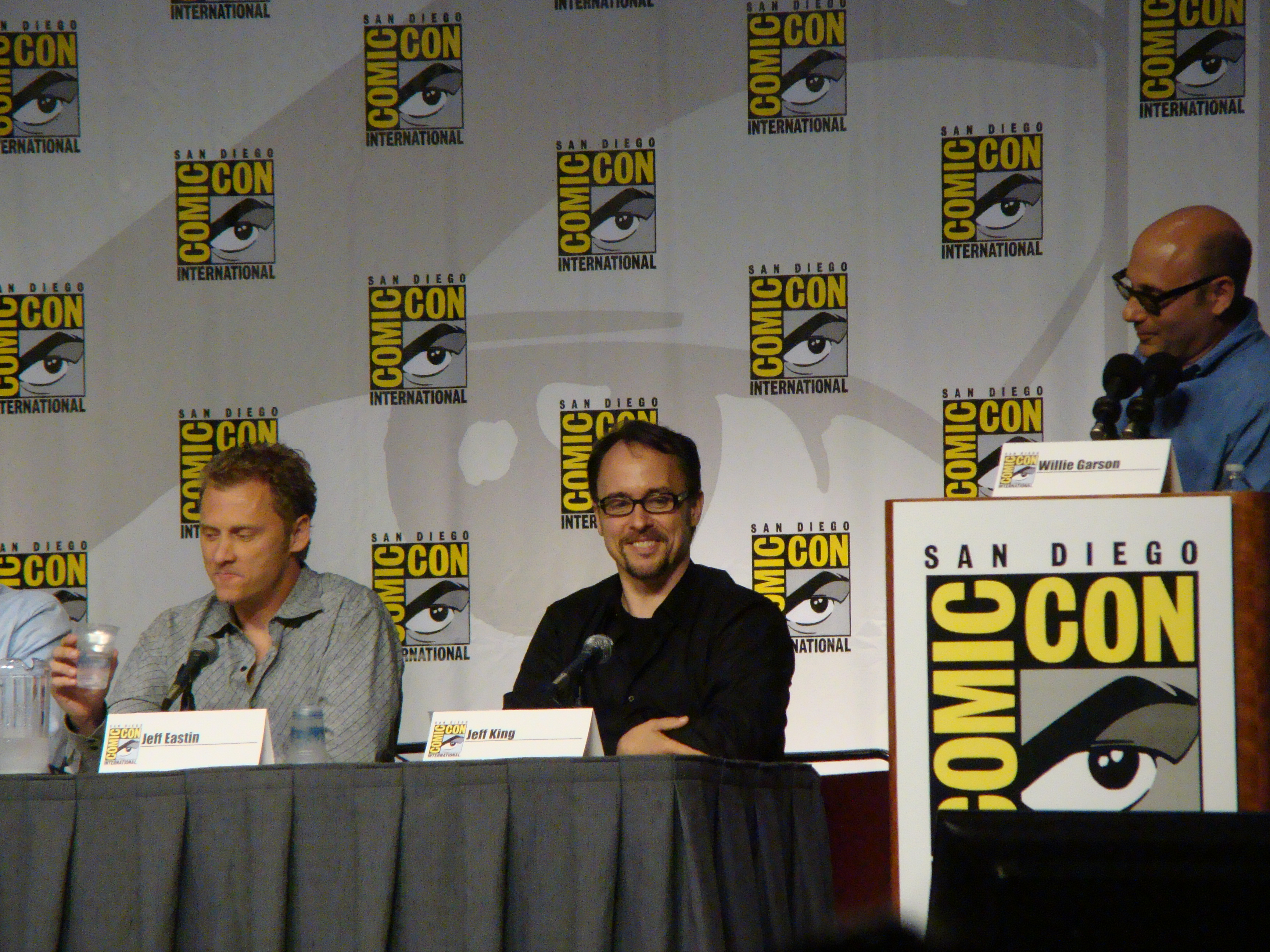 Jeff Eastin, Jeff King & Willie Garson